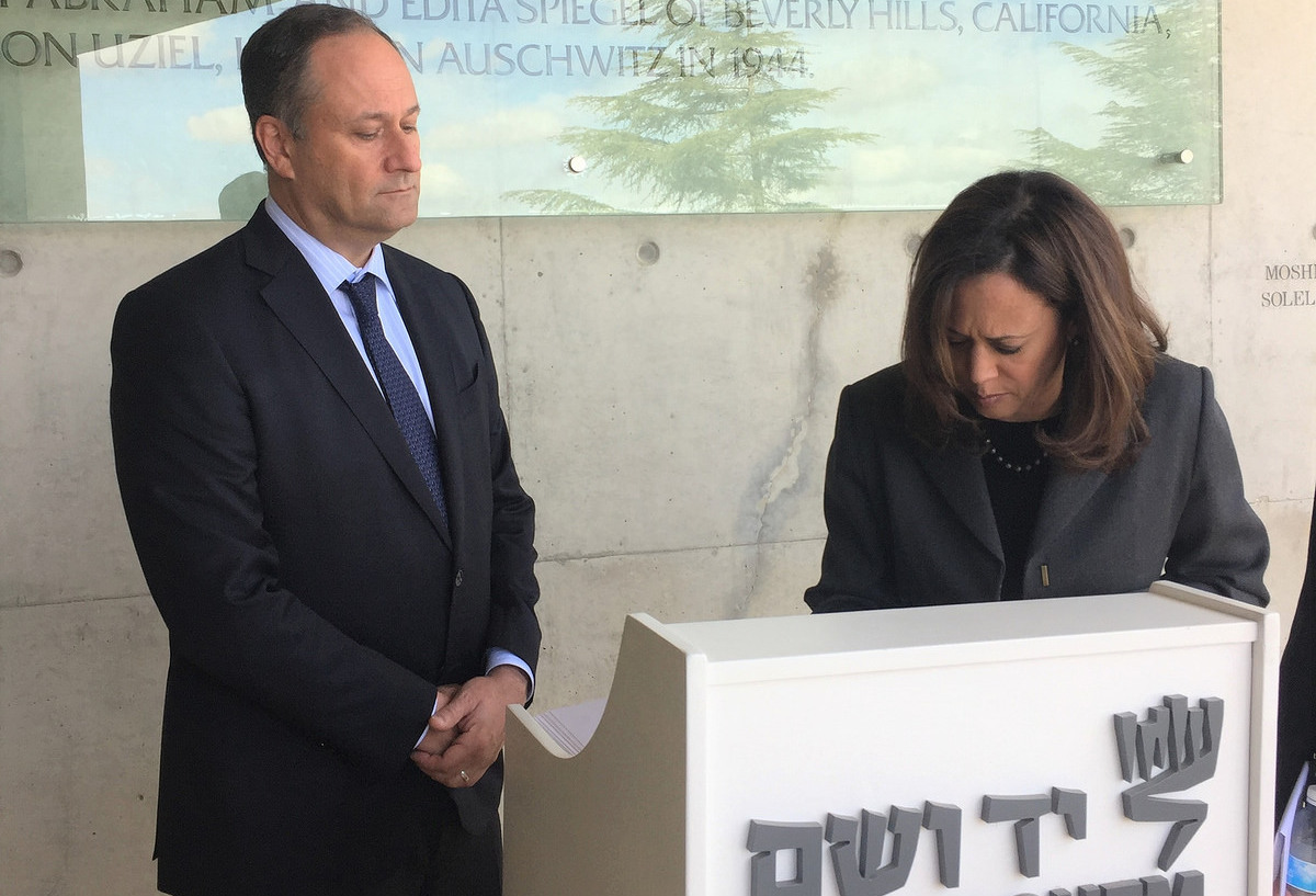 Senator Harris signing the guest book at Yad Vashem with her husband, Doug